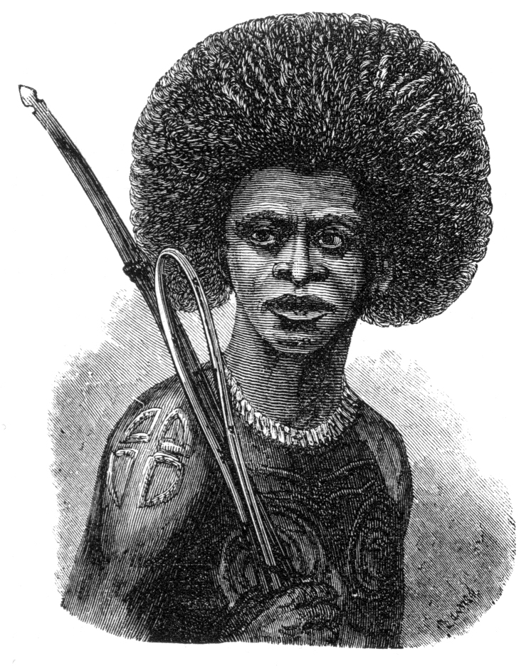 Engraving of "Papuan, New Guinea" from Alfred Russel Wallace's The Malay Archipelago, 1869, volume 2, page 322.